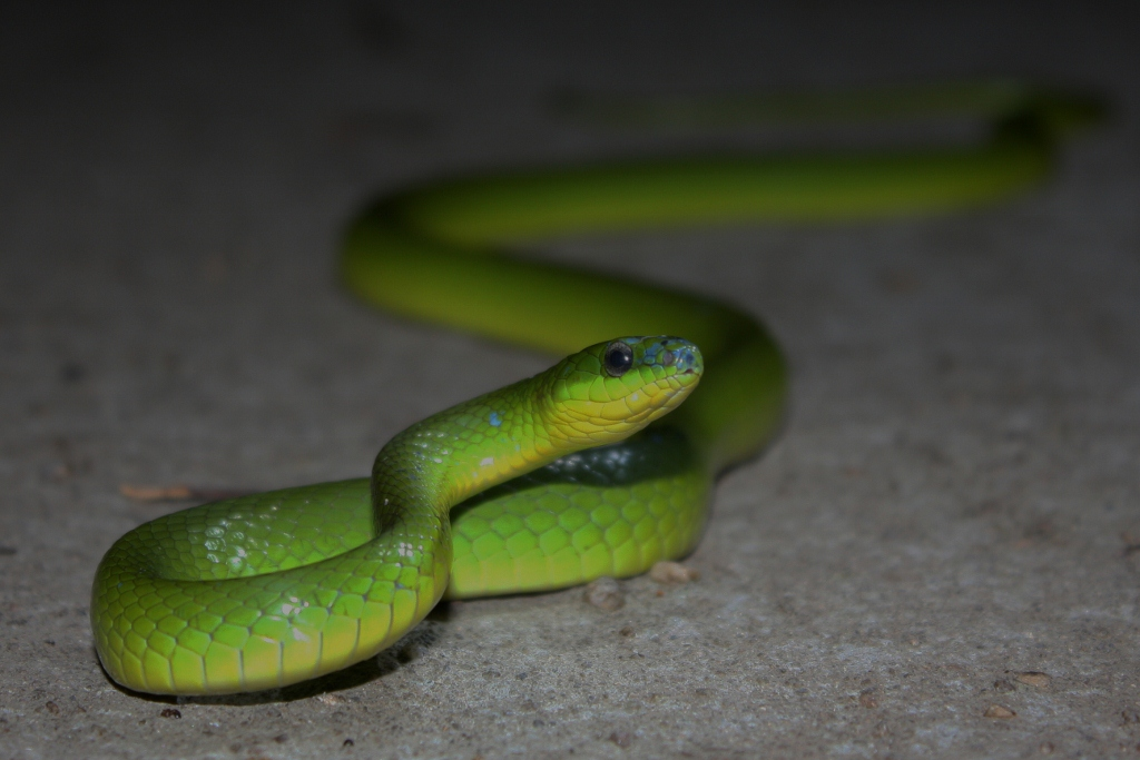 Found inside a water catchment on Lantau.